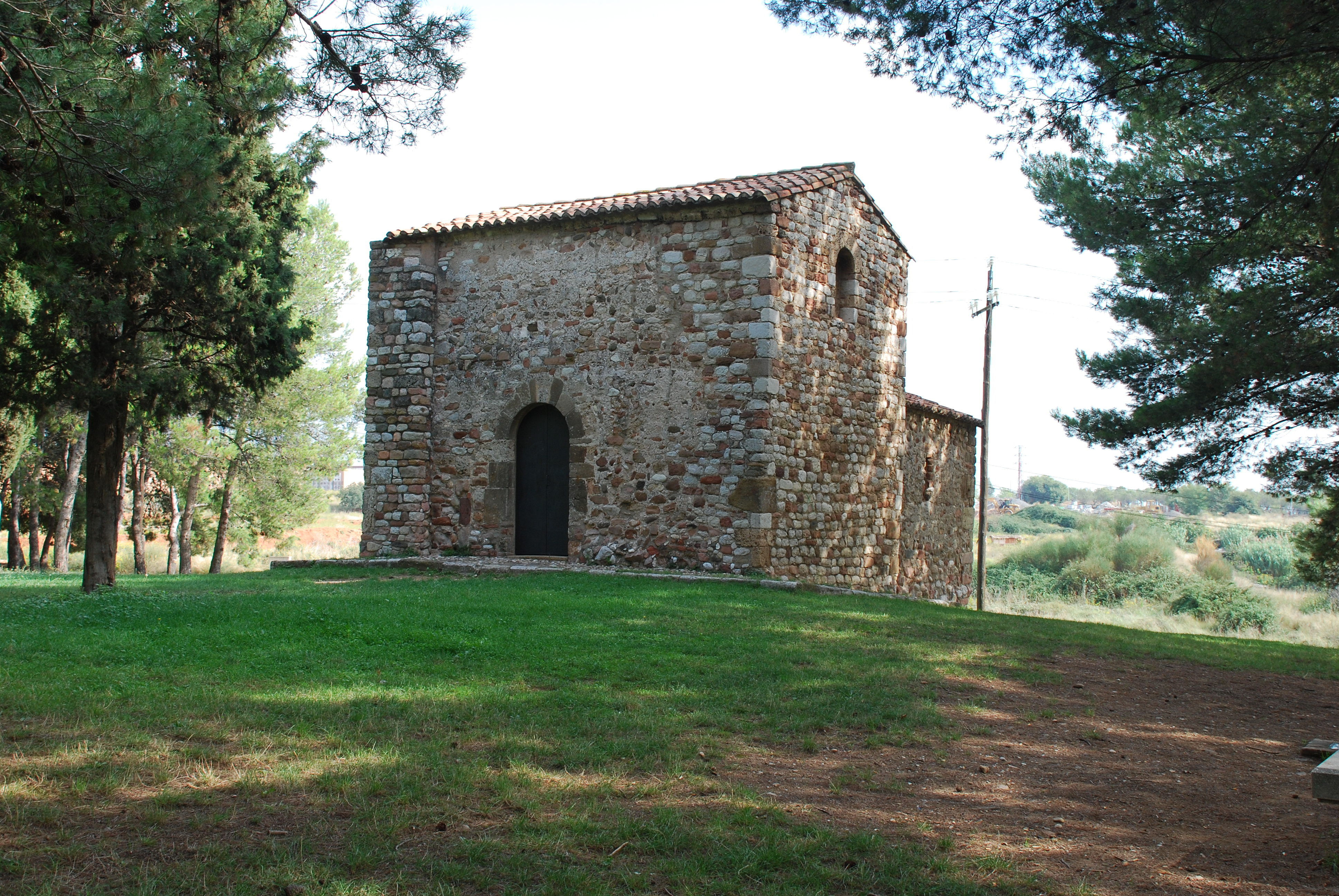 Sant Nicolau's Chapel